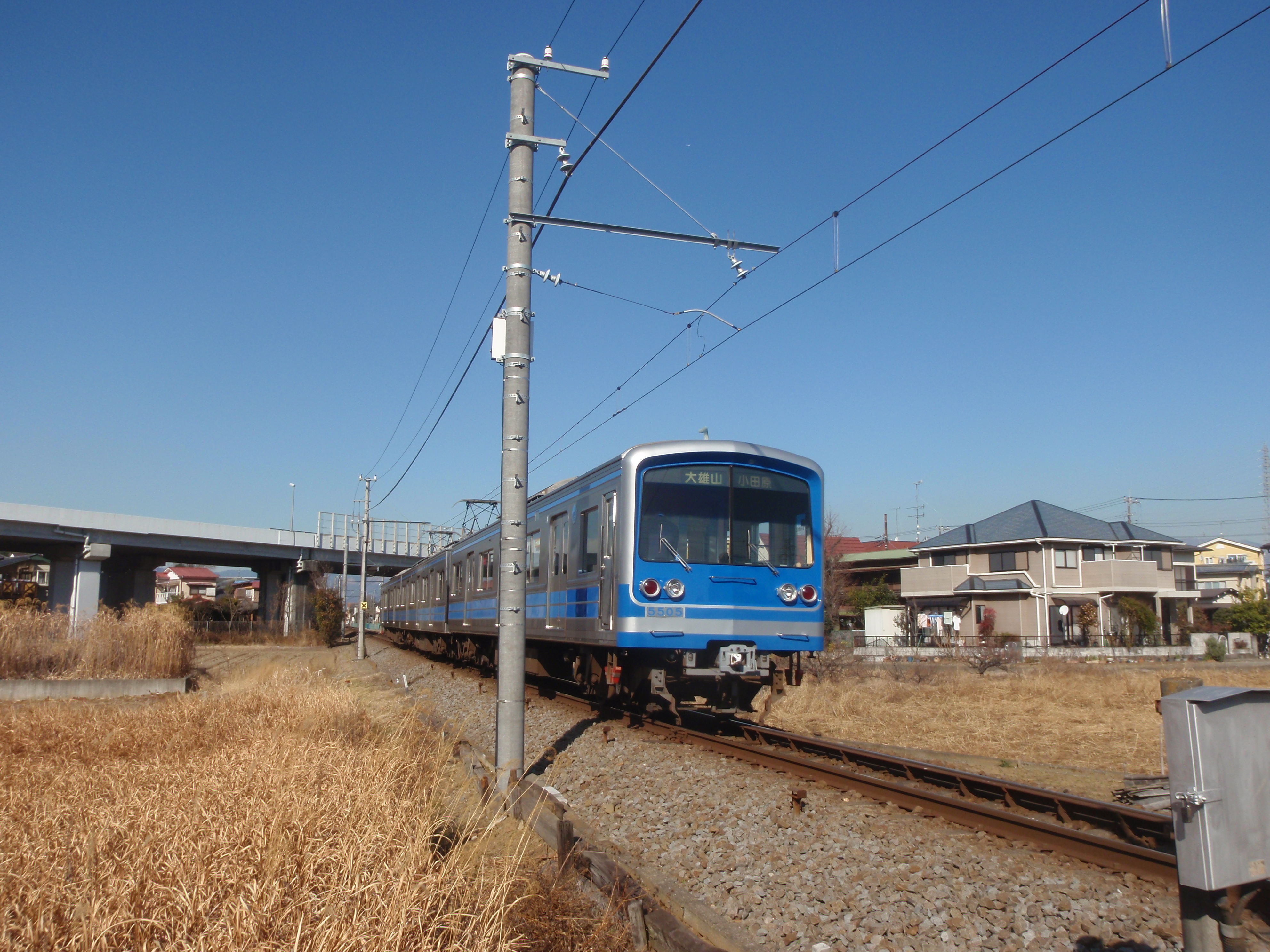 Izu Hakone Railway 5000 series EMU set 5009 (cars 5505-5010-5009) on the Daiyuzan Line between Anabe and Goyakurakan stations in Odawara, Kanagawa Prefecture, Japan